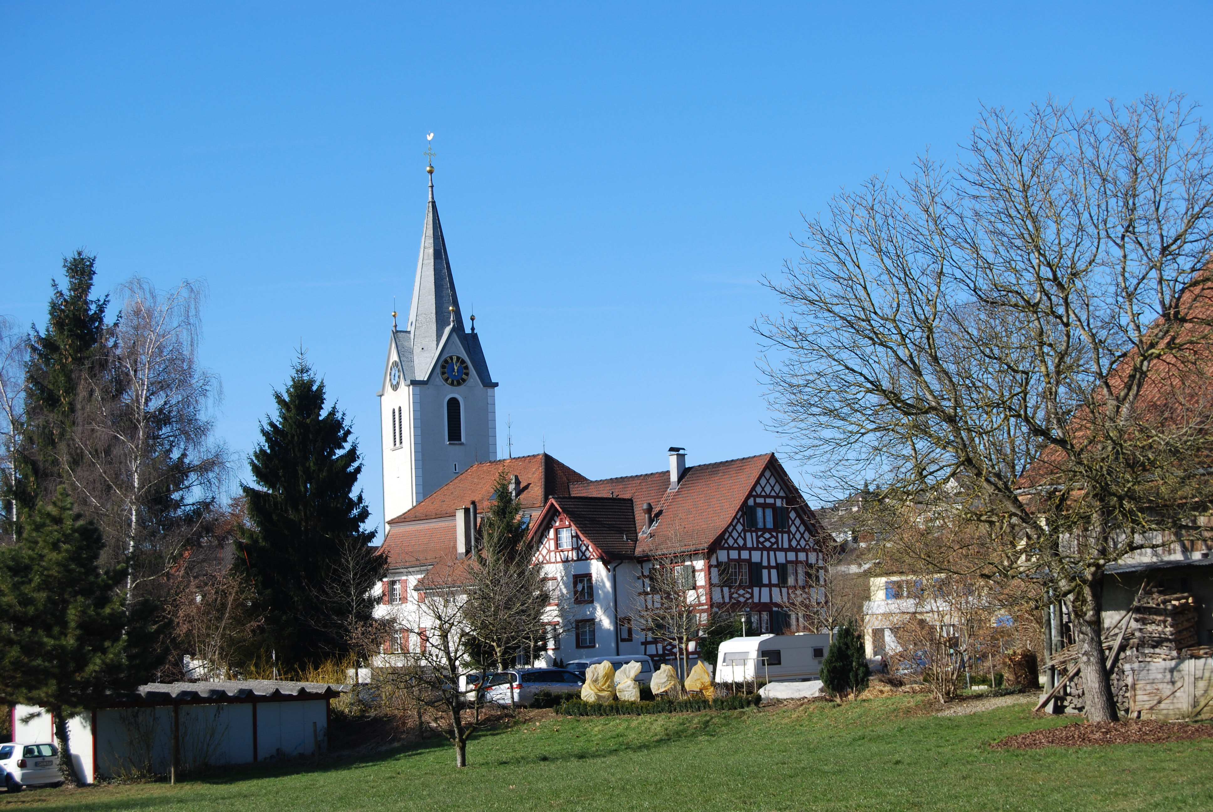 Protestant Church and timberframing houses at Müllheim, canton of Thurgovia, SwitzerlandEsperanto: Reformita preĝejo kaj faktrabdomoj en Müllheim, Kantono Turgovio, Svislando